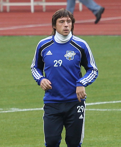 Leonid Kovel